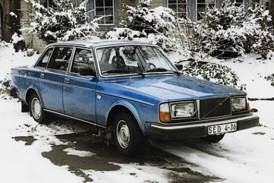 Volvo 264 GL, MY 1977, european spec.